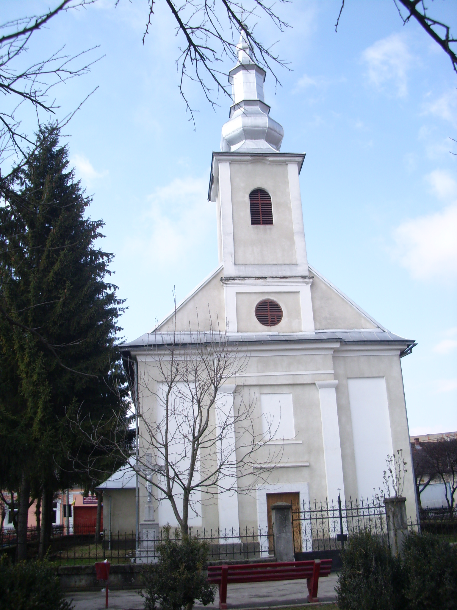 Roman Catholic Church, Târgu Lăpuş, Romania (1831)